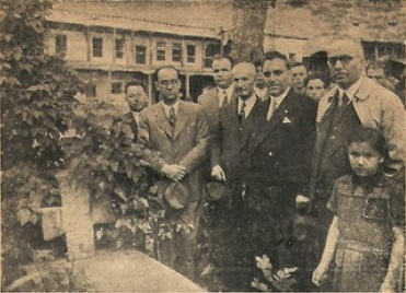 Boris Yotsov, Yordan Badev at the Grave of Kiril Peychinovich